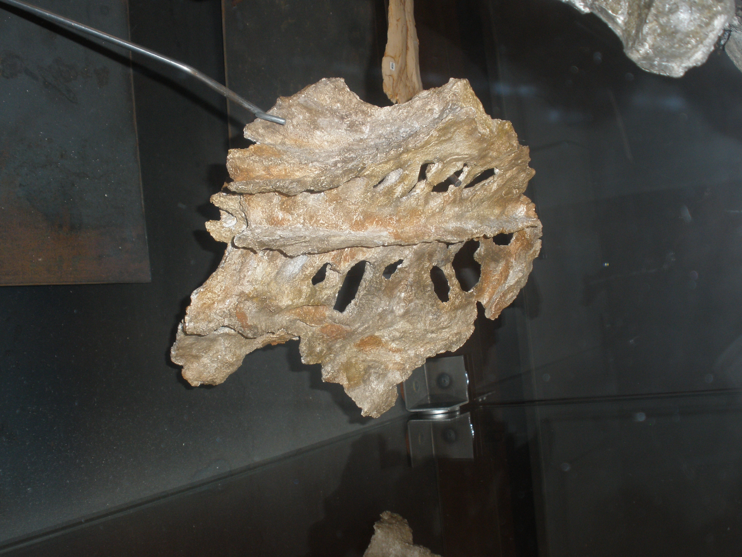 fossil pelvis of Gargantuavis philoinos, an extinct bird